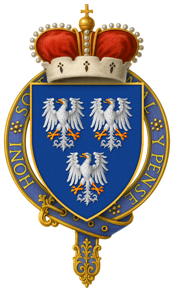 Gartered shield of arms of Carl, 3rd Prince of Leiningen, KG